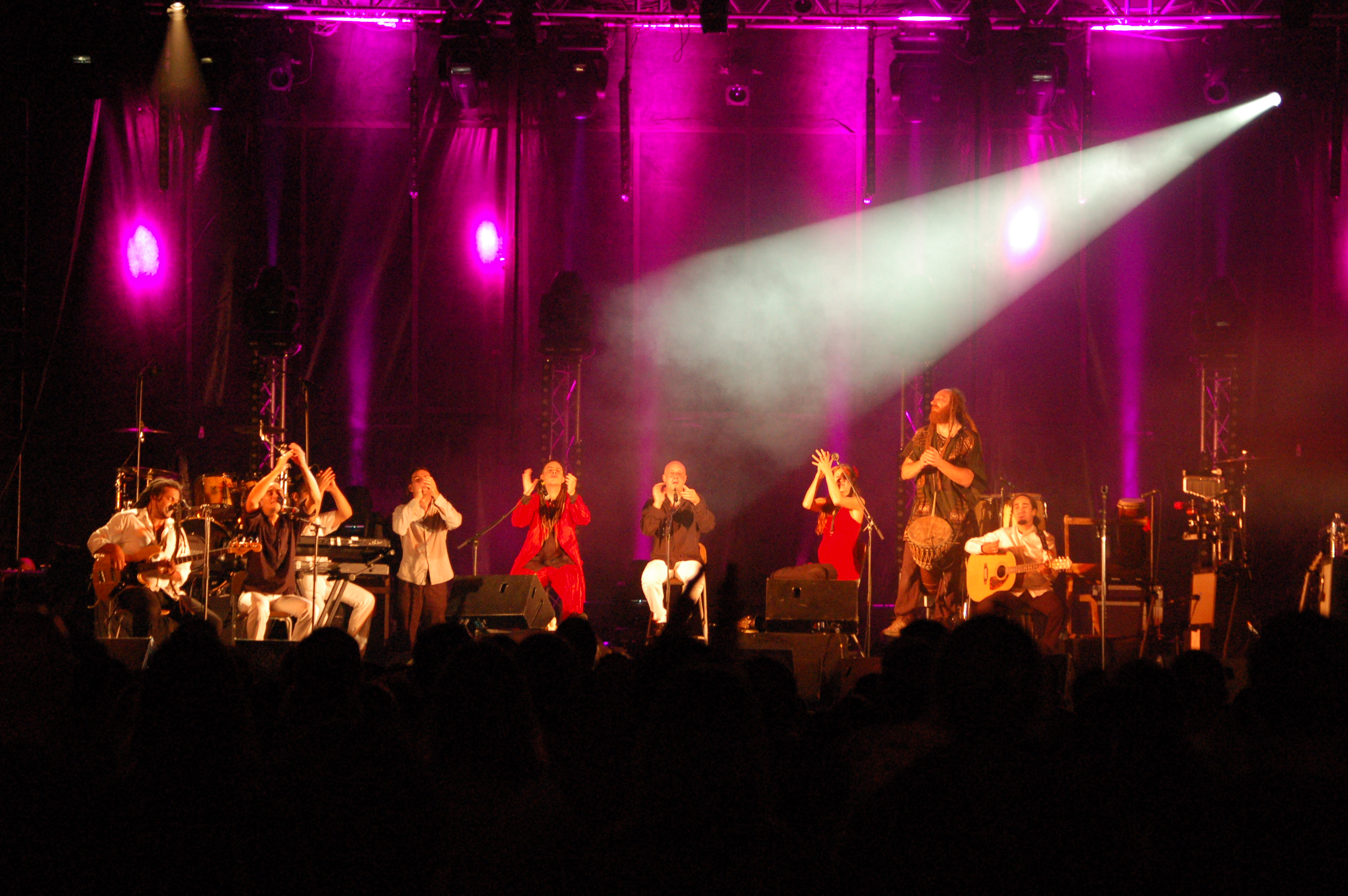 French band Sinsemilia, Live in Saint-Ouen (France), 19 september 2009.